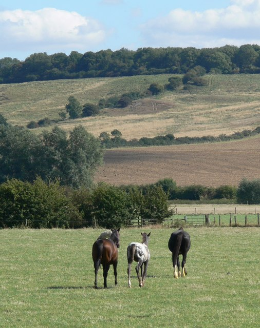 Horses in pasture next to the A6003 Rockingham Road, Great Easton, Leicestershire